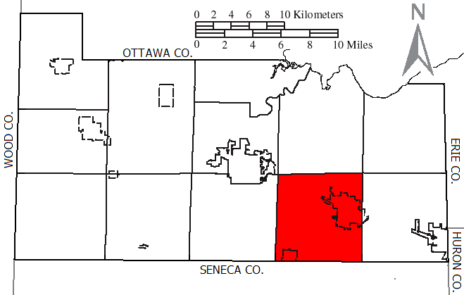 Made by the US Census and modified by User:Frank12